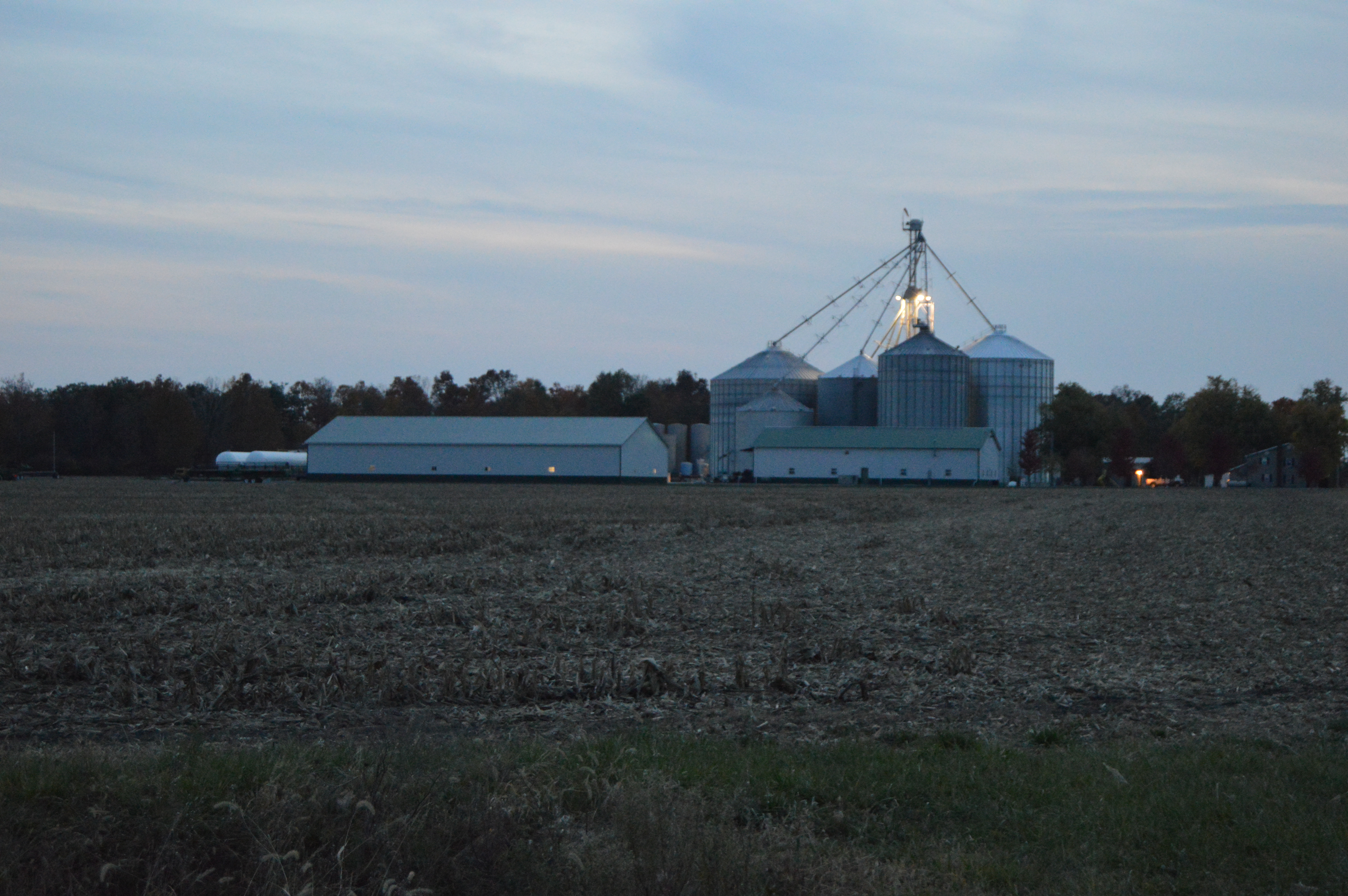 Looking westward from Florence Chapel Road to a farm on State Route 316 just northeast of Darbyville in Muhlenberg Township, Pickaway County, Ohio, United States.